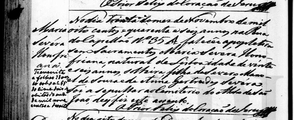 Death register of Maria Severa Onofriana, dated 30 November 1846. Parish of Socorro, Lisbon. It reads: "On the thirtieth day of the month of November, eighteen forty-six, on the Rua do Capelão, n.º 35-A, died of an apoplexy, and without receiving the Sacraments, Maria Severa Onofriana, from Lisbon, aged twenty-six, unmarried, the daughter of Severo Manoel de Sousa and Ana Gertrudes Severa. She was buried on the Alto de São João Cemetery, a fact which I am registering on this ledger. The Priest, Félix do Coração de Jesus"